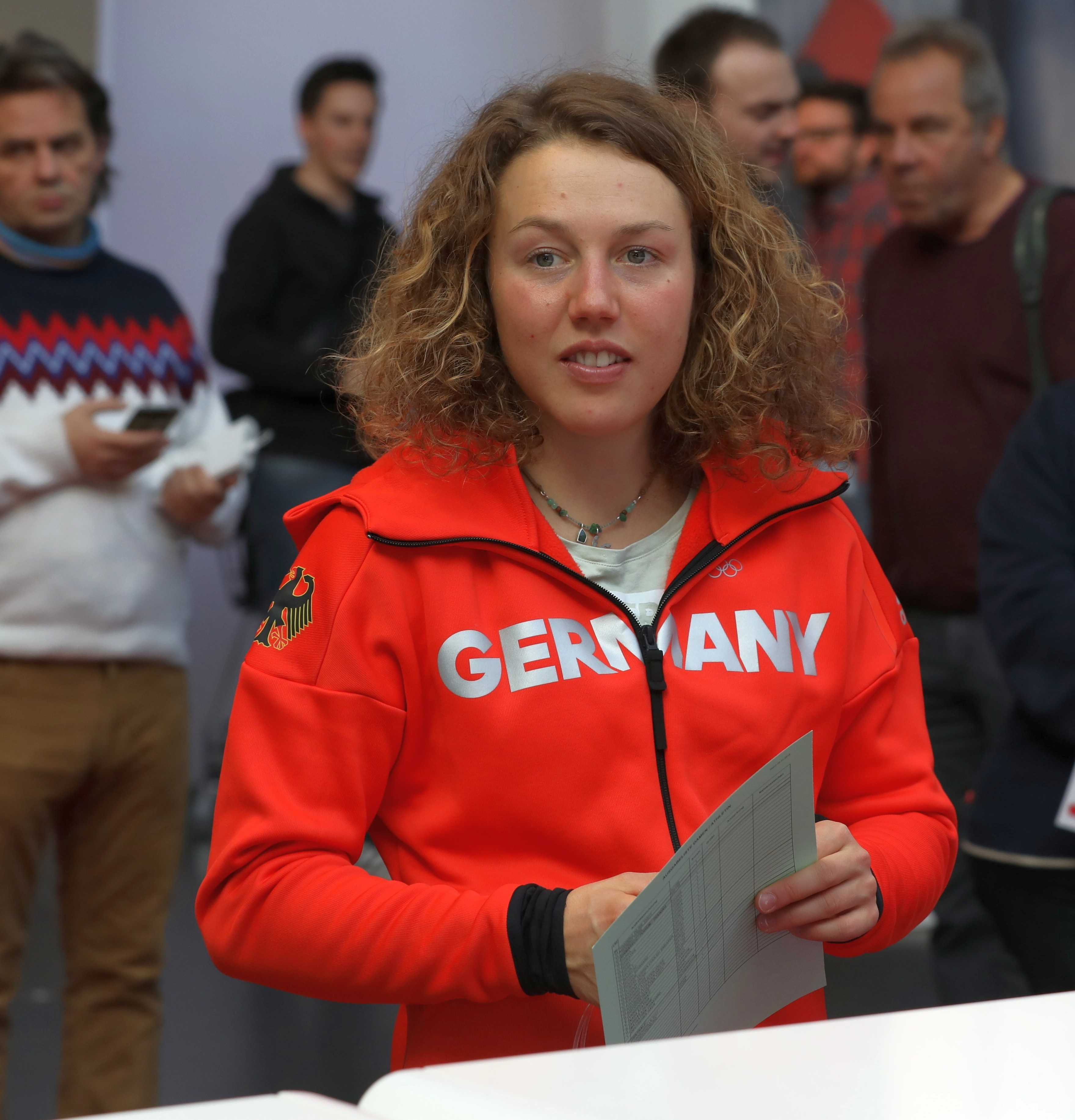 Investiture of the German team for Winter Olympics 2018 in Pyeonchang: Laura Dahlmeier